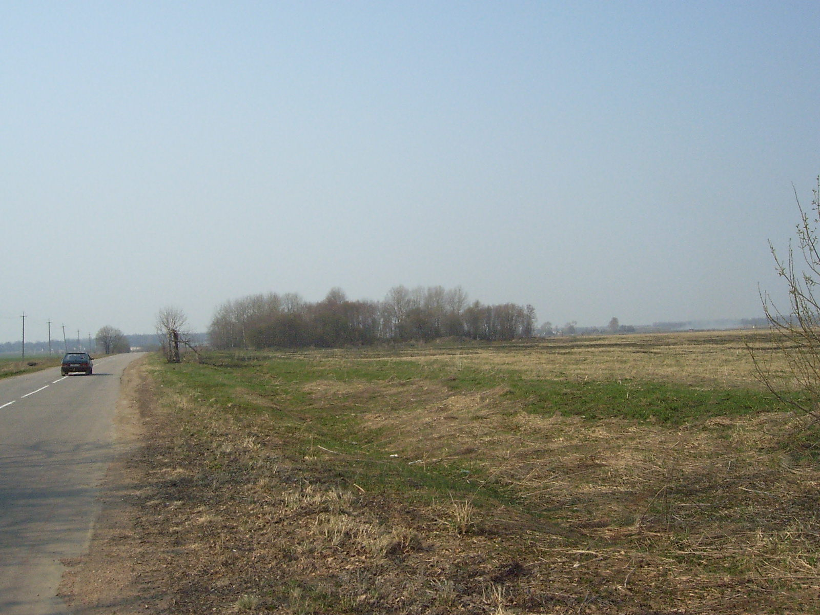 The site where Koporye Lutheran church used to be.